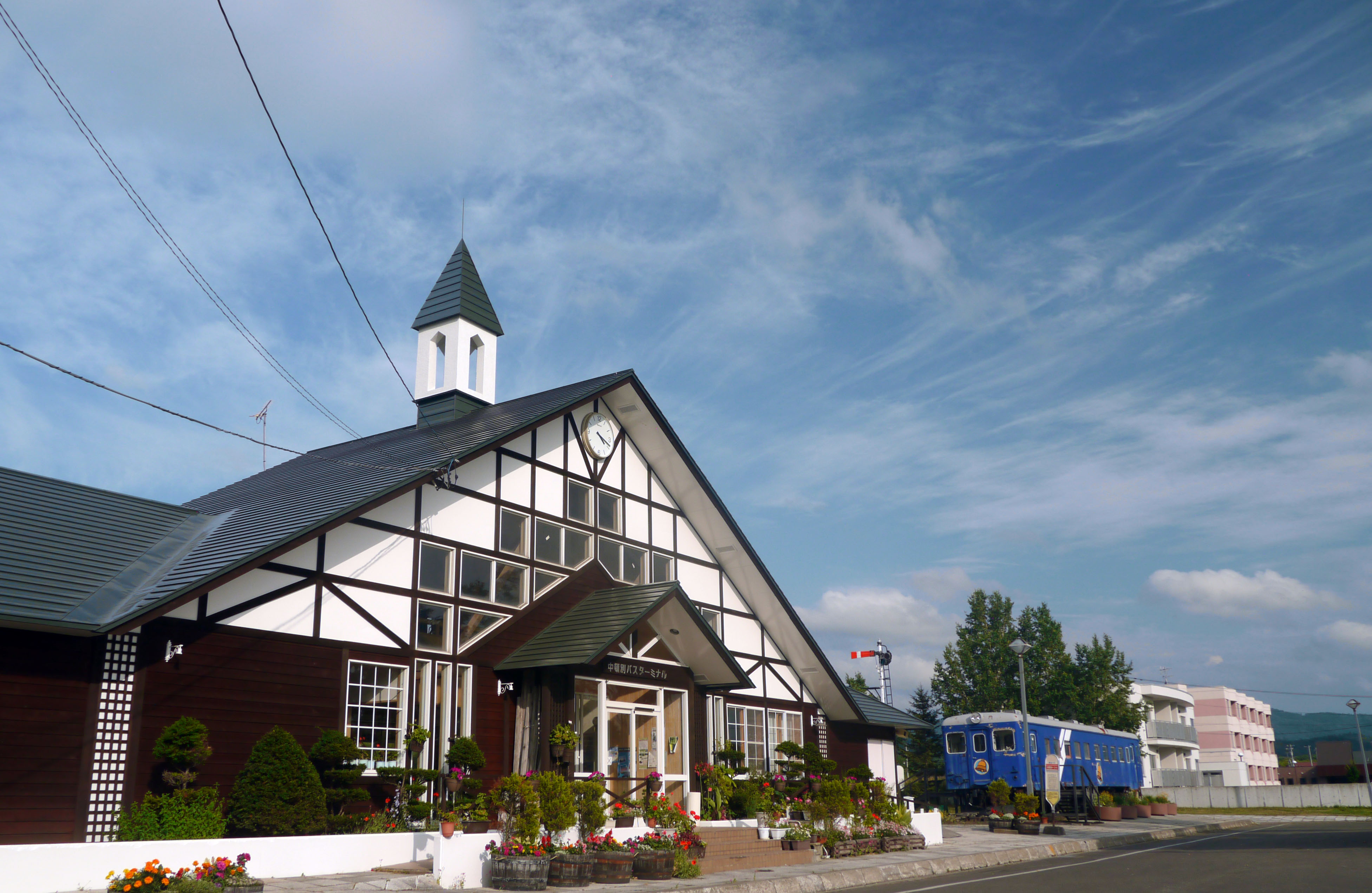 Nakatonbetsu Bus Terminal/Remains of Nakatonbetsu Station of the Tenpoku Line in Hokkaido, Japan. Photo taken on August 5, 2011.